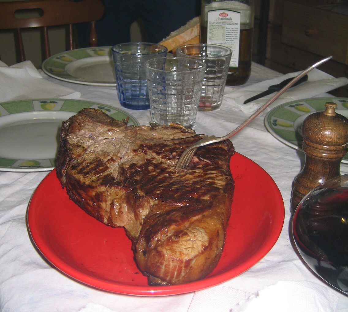 Bistecca alla Fiorentina is a grilled T-Bone-Steak. It hailes from Tuscany and is prepared preferably from Chianina beef